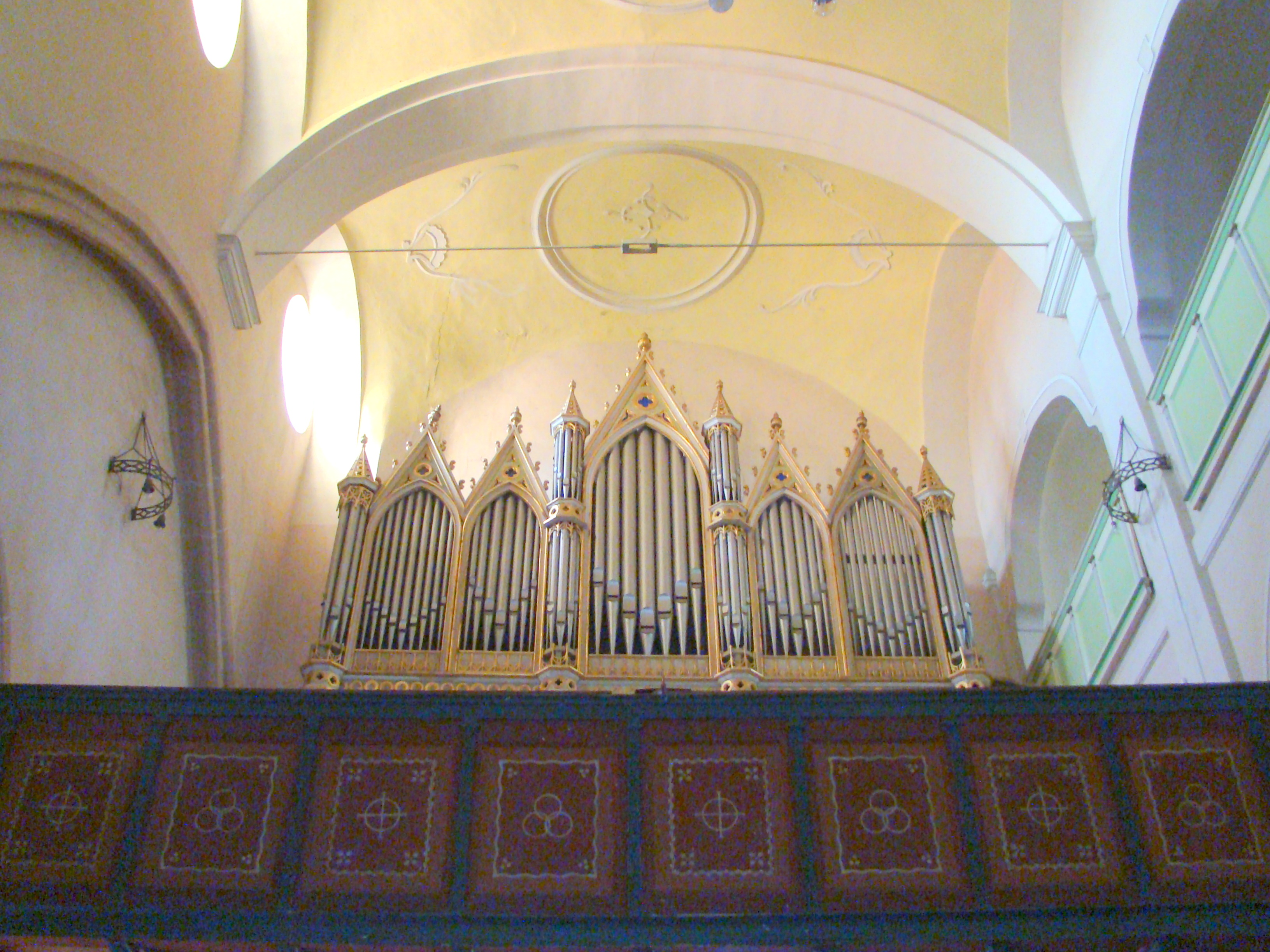 Lutheran church in Reghin, Mureş county, Romania